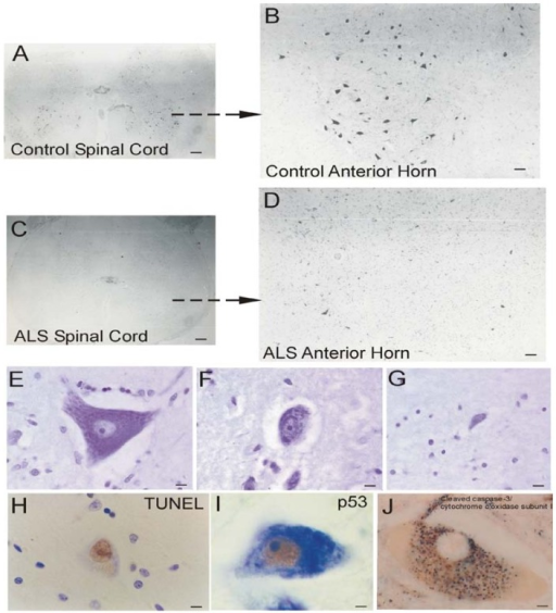 A-B: Normal spinal cord and number of motoneurons in anterior horn C-D: ALS spinal cord and loss of motoneurons E-normal motoneuron F- attritional motoneuron G-residual motoneuron H-accumulation of DNA double-strand breaks I- accumulation of p53 in nucleus of motoneuron J- accumulation of caspase-3 and descreted mitochondria